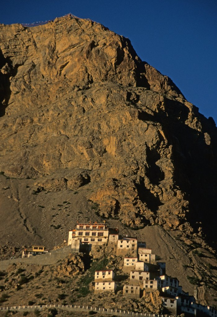 Jonathan Claybaugh, taken during the August 2000 Kalichakra